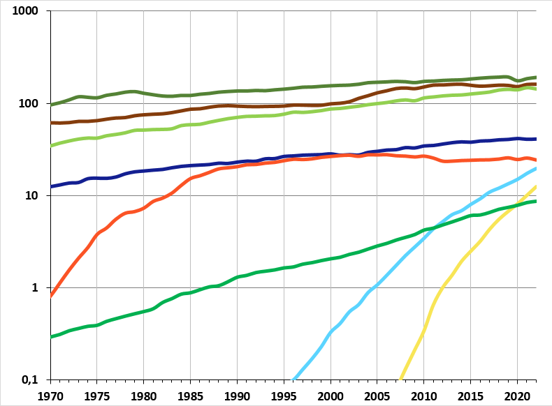 Energy produced from different sources in the world since 1970 (Mtoe), data from BP. Oil Coal Gas Hydro Nuclear Wind Biomass, Geothermal and Other Solar